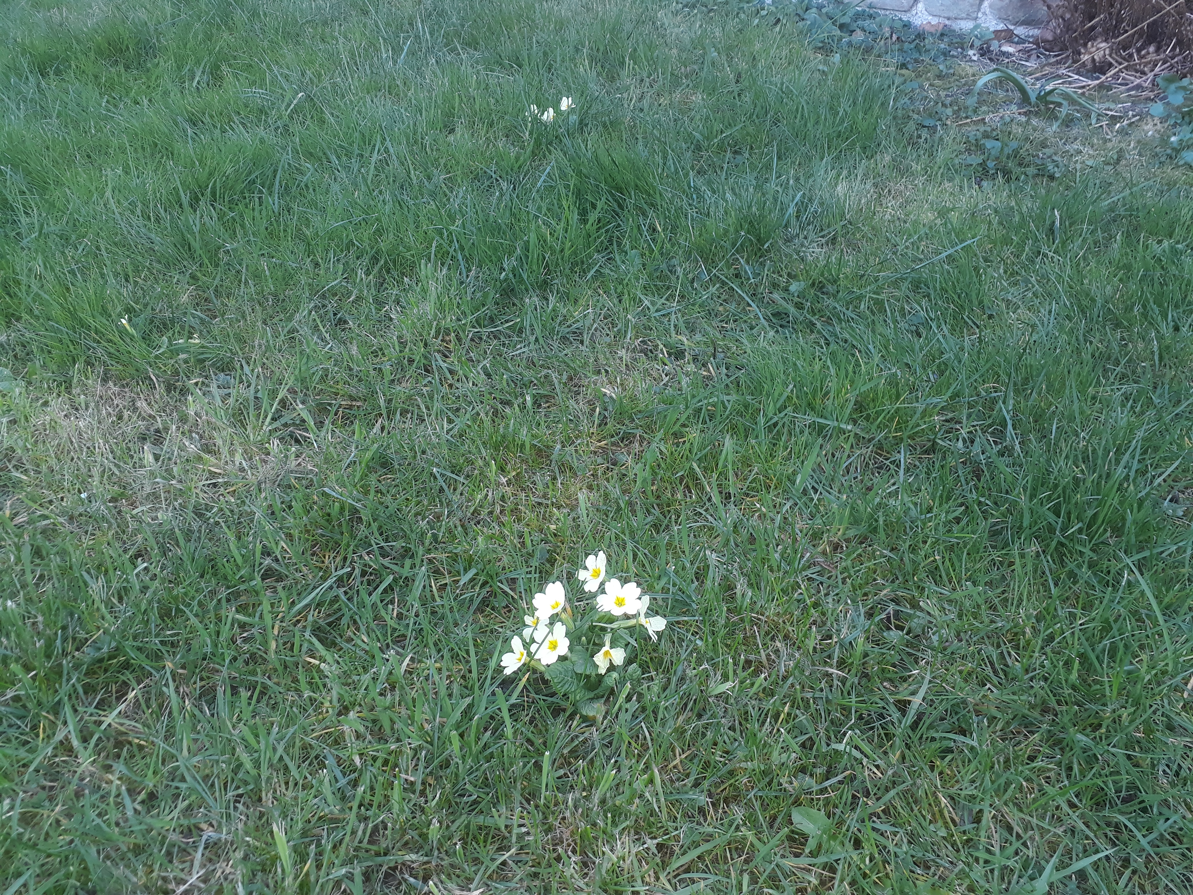 Primula vulgaris in Vottem